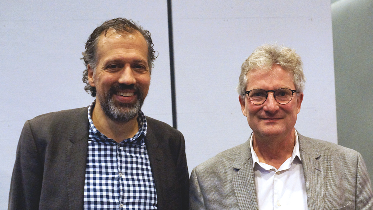 Main leaders of the history festival Historiske Dage - general manager Henrik Thorvald Rasmussen (left) with initiator and board chairman Bjarke Larsen (right), - at the Copenhagen Book Fair "BogForum 2015", Copenhagen, Denmark